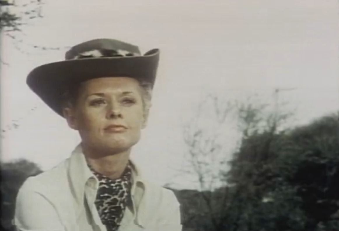 Tippi Hedren in George Montgomery's Satan's Harvest trailer.